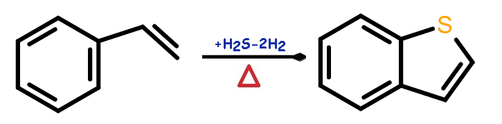 Benzothiophene synthesis from styrene and hydrogen sulfide